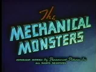 Title screen of the animated short "The Mechanical Monsters".